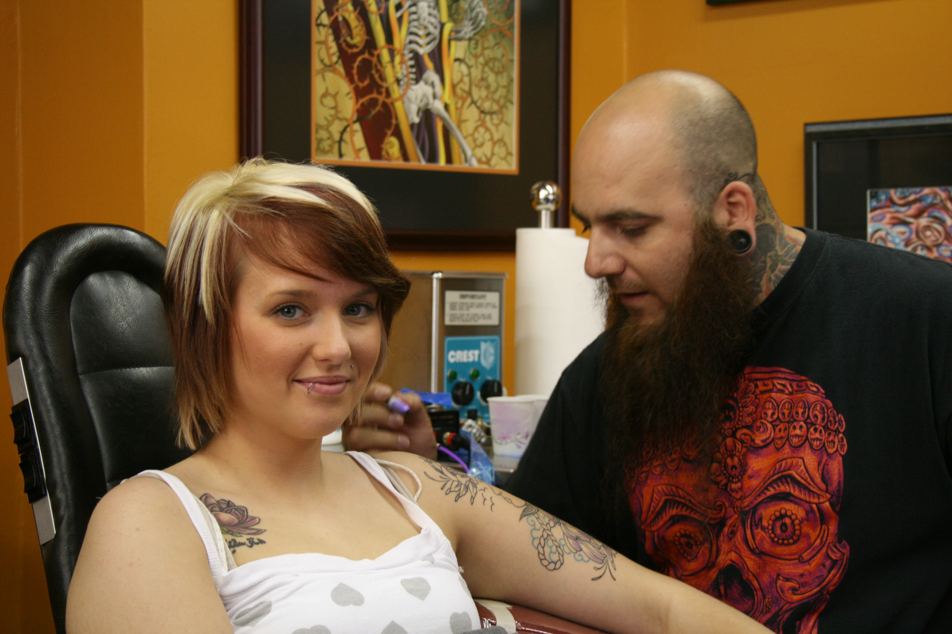 Maggy, under the needle of Jason G., of Flaming Dragon Tattoo in Tacoma, WA.